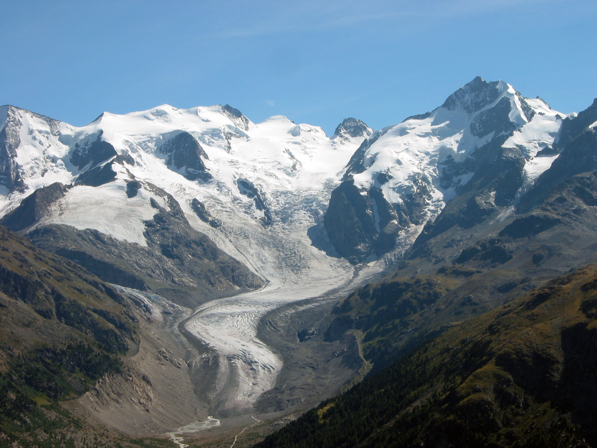 Morteratsch Glacier with Piz Bernina (4.049 m, right side) and Bianco-ridge. (Photo taken from the Paradis-hut)